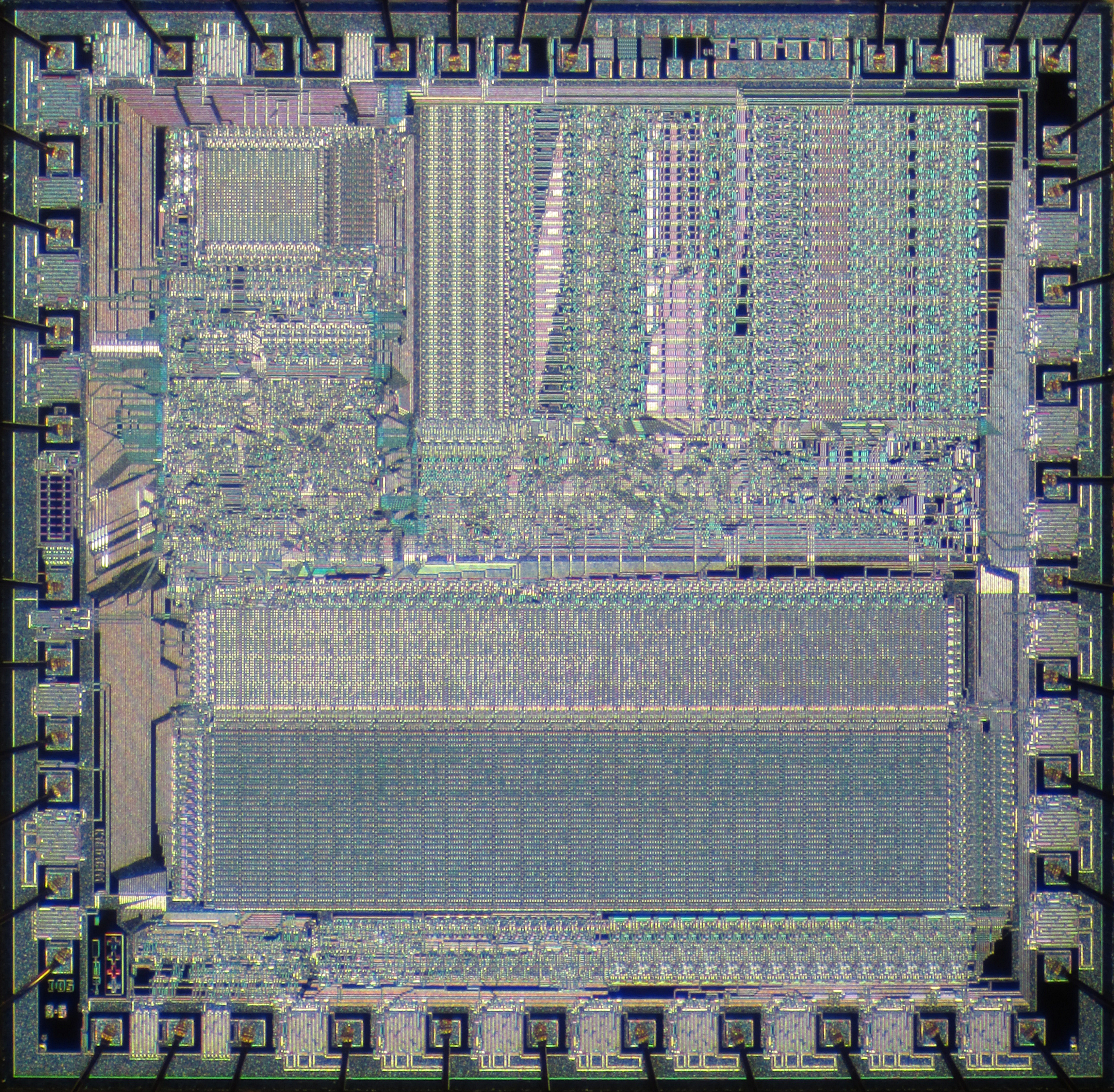 Die shot of Soviet K1801VM1 microprocessor.